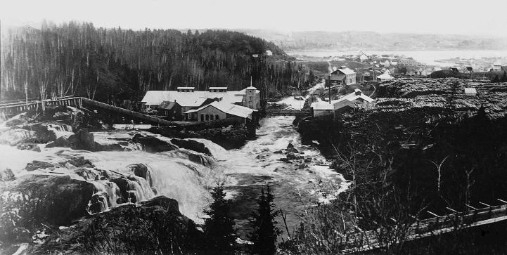 Photograph, Chicoutimi Pulp Company, QC, about 1895, Wm. Notman & Son. Silver salts on paper - Gelatin silver process - 20 x 25 cm